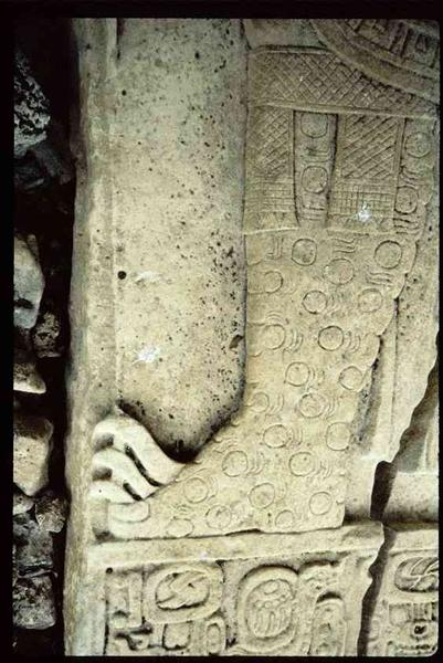 Rvillalobos, 2004 Estela 5 de dos pilas, detalle con piel de Jaguar